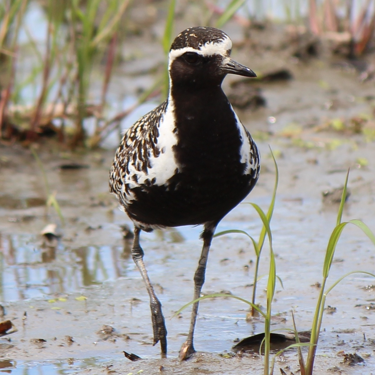 Pluvialis fulva (Pacific Golden Plover) in Japan